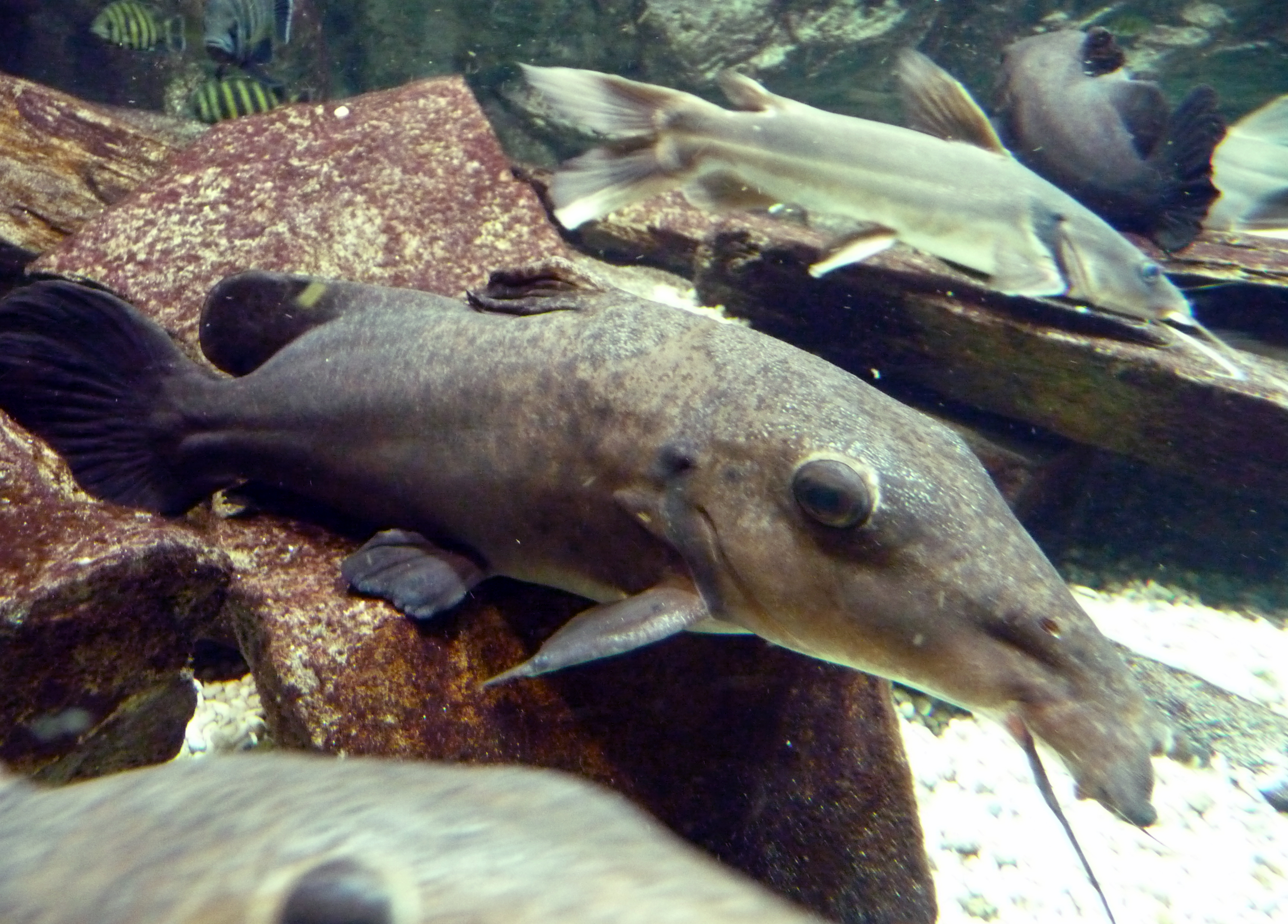 Auchenoglanis occidentalis